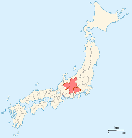 The Central Highland subregion of Chūbu map